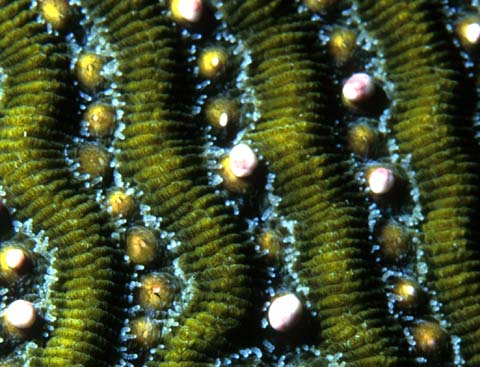 Stony coralspawning